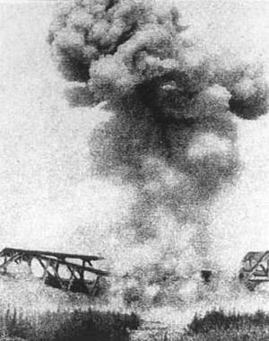 a Chinese railway (隴海鐵路)in northwest under japanese bombardment